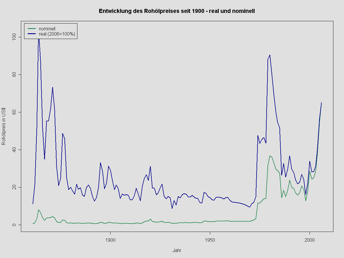 evolution of the crude oil price (data by BP, see raw data at the bottom from BP): nominal prices (2006=actual price) and real prices in US dollar.